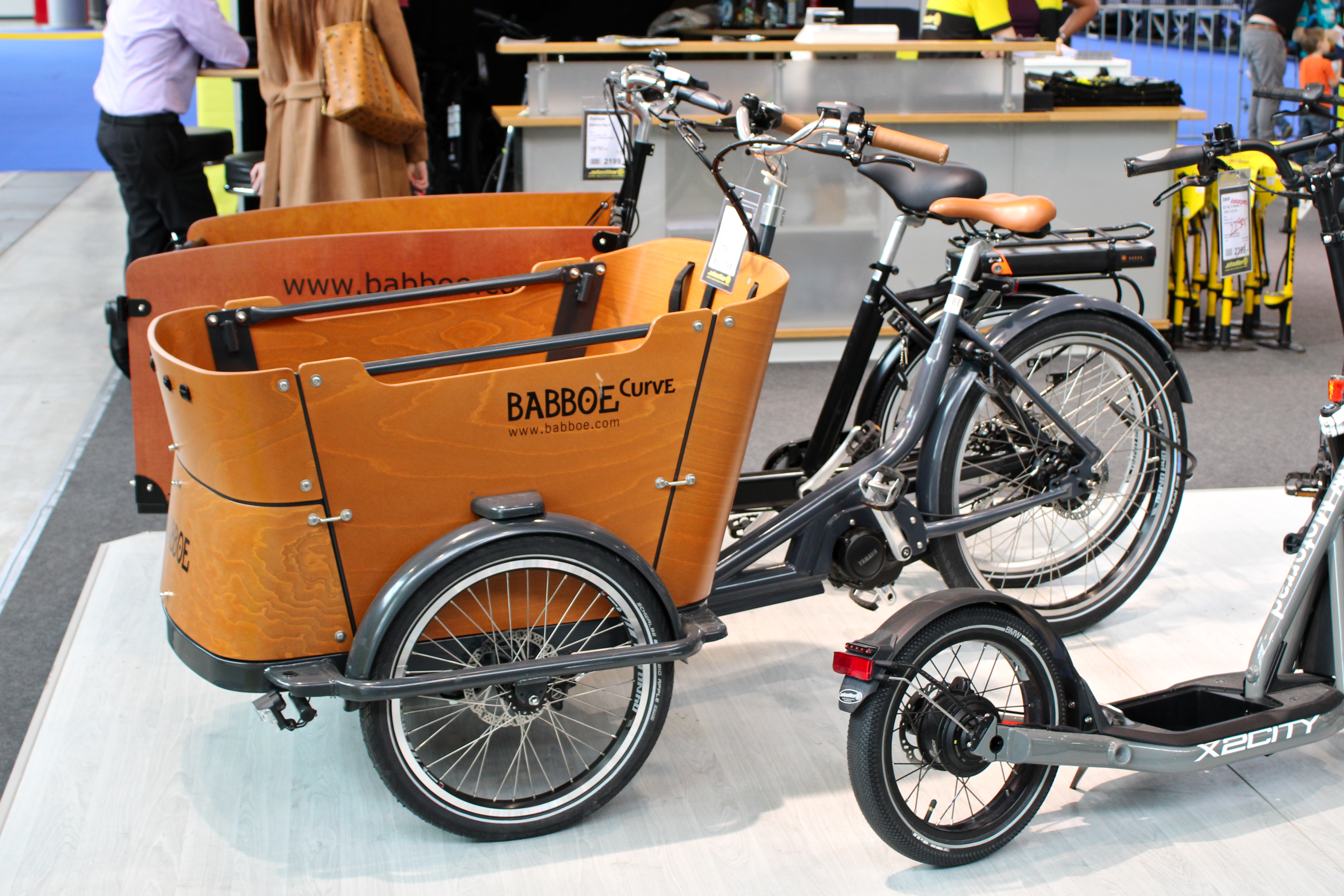 Lastenrad at i-Mobility 2019